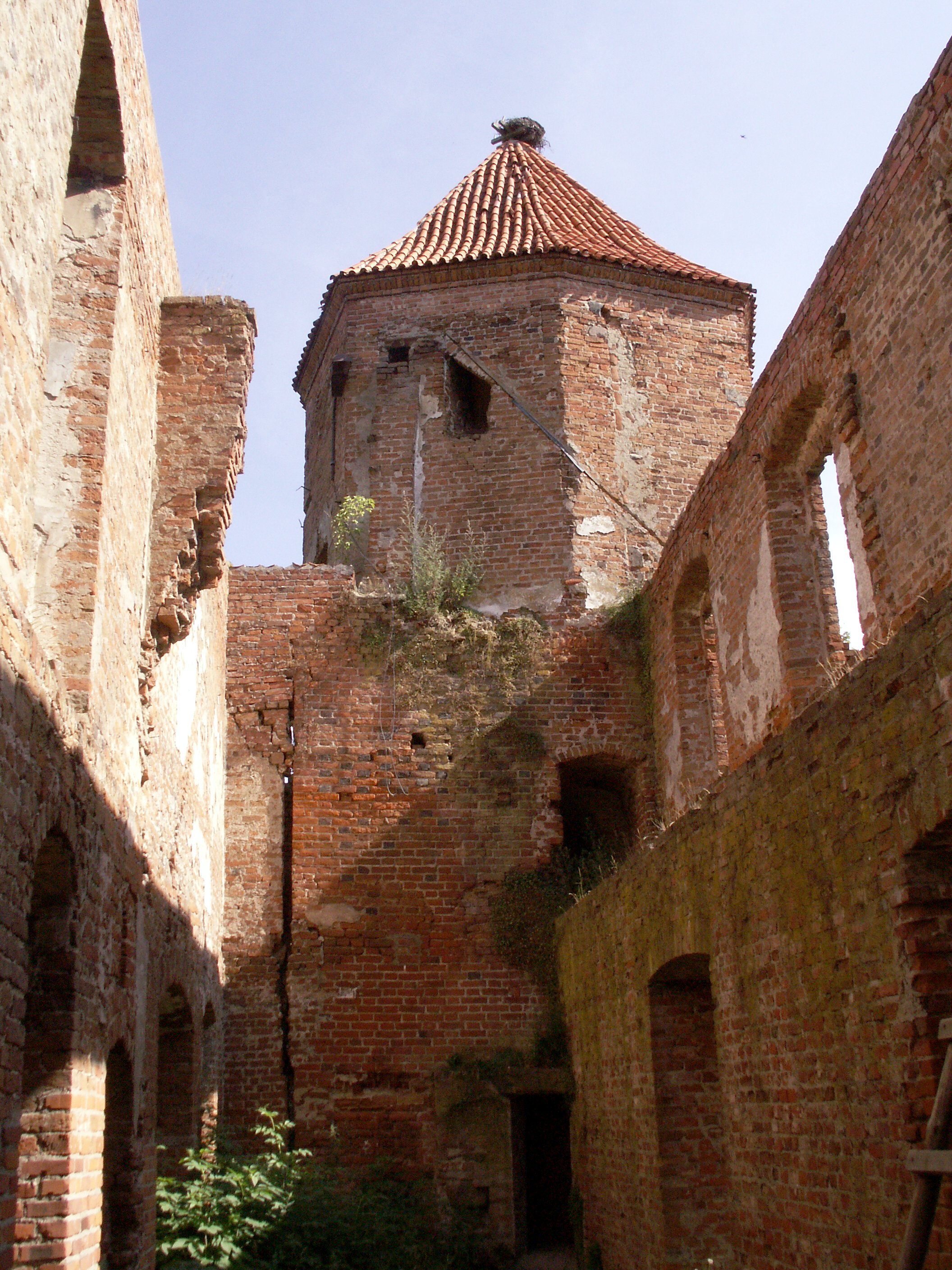 Szymbark Castle